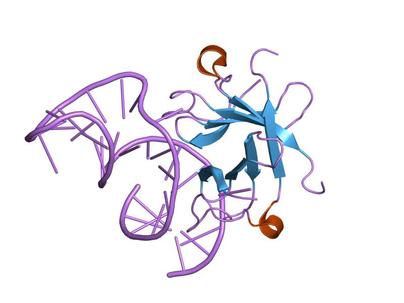 Cartoon representation of the molecular structure of protein registered with 1l1c code.